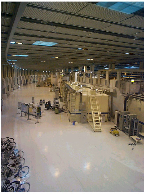 Experiment producing induced gamma emission from a sample of the nuclear isomer 178m2Hf. (left to right) Students on duty; (w/ladder), the world's most stable beamline for monochromatic X-rays, BL01B1; (right) main ring of the SPring-8 synchrotron light source at Hyogo. I took this photograph of our team members working at the SPring-8 synchrotron in Japan from a public viewpoint.